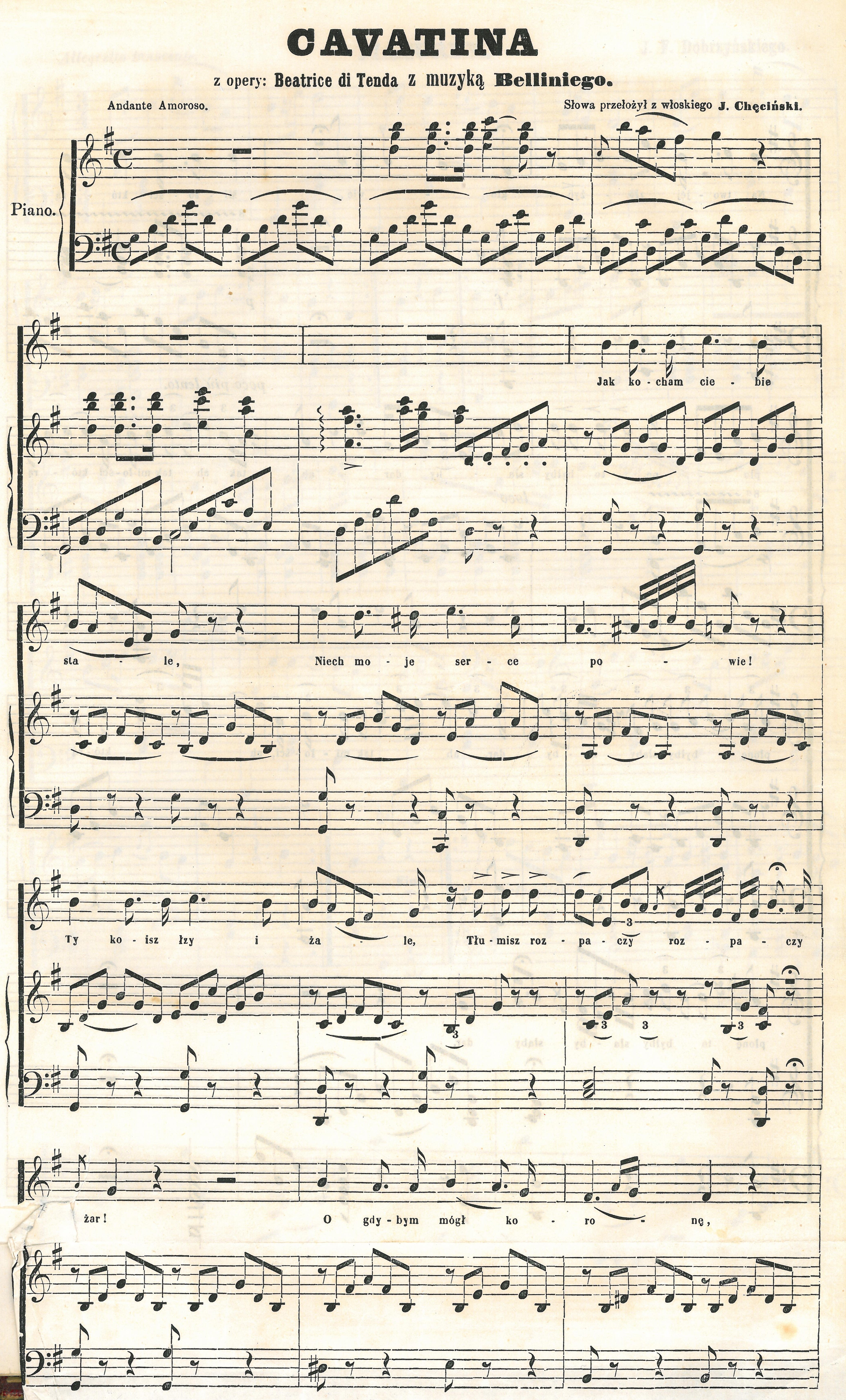 Music score of the cavatina from Bellini's Beatrice di Tenda